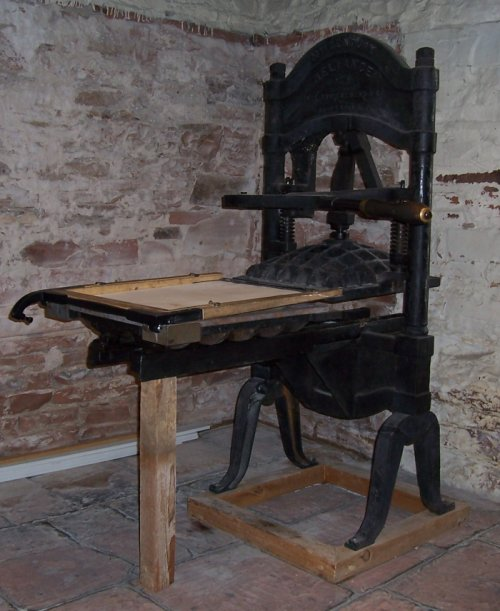 This historic printing press, which once printed the Deseret News, is located in the Territorial Statehouse in Fillmore, Utah